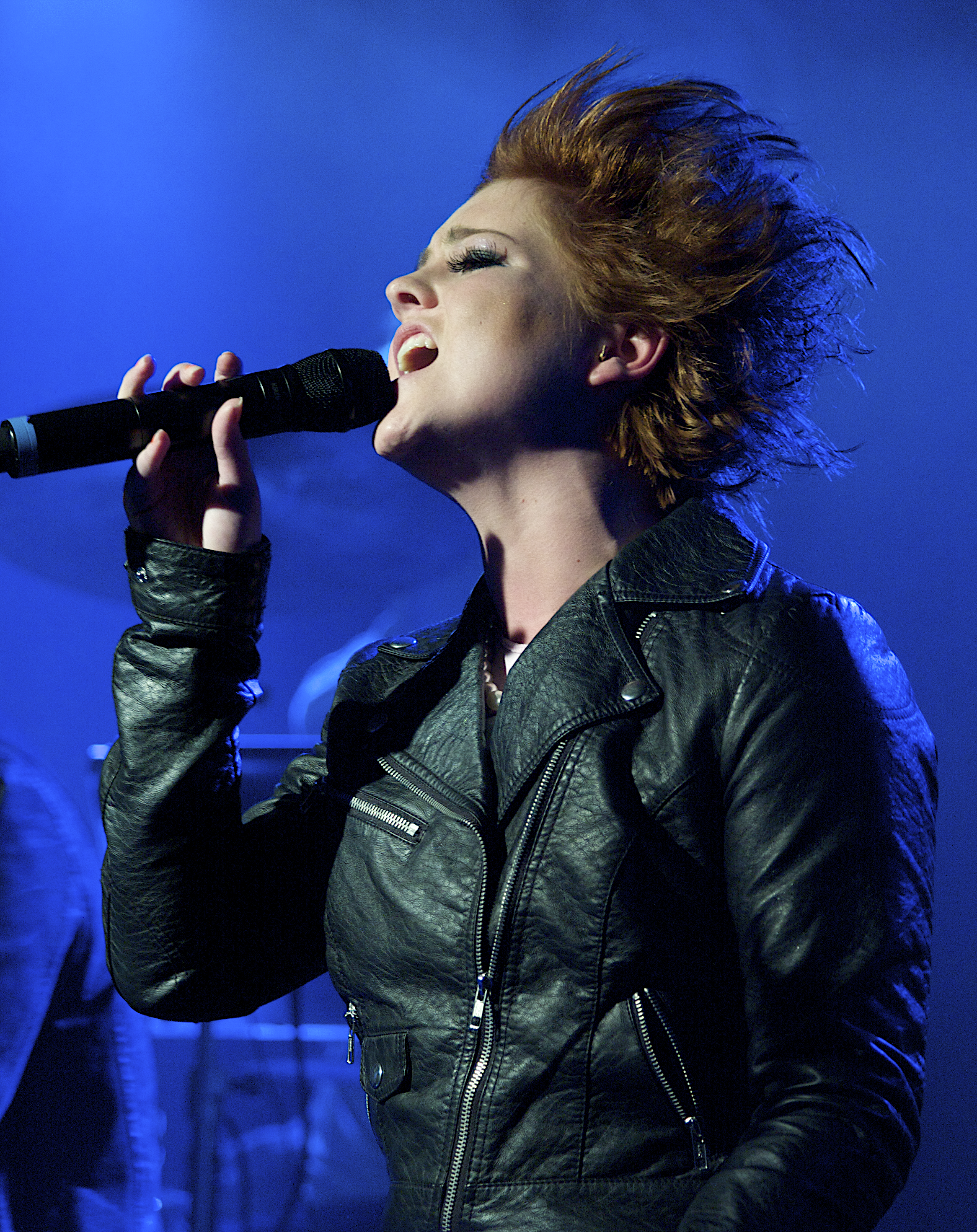 Danish singer, Sys Bjerre.